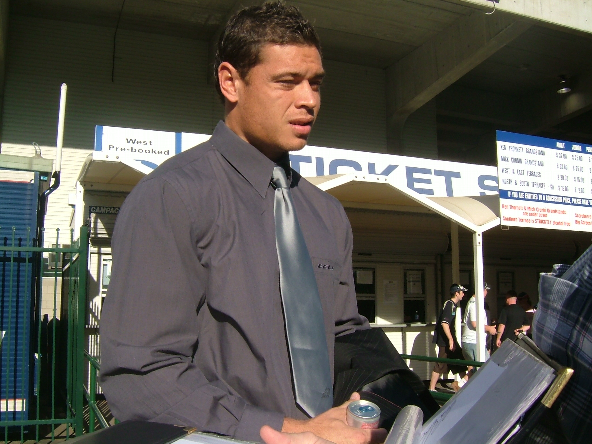 Waratahs three-quarter and former Parramatta league centre.